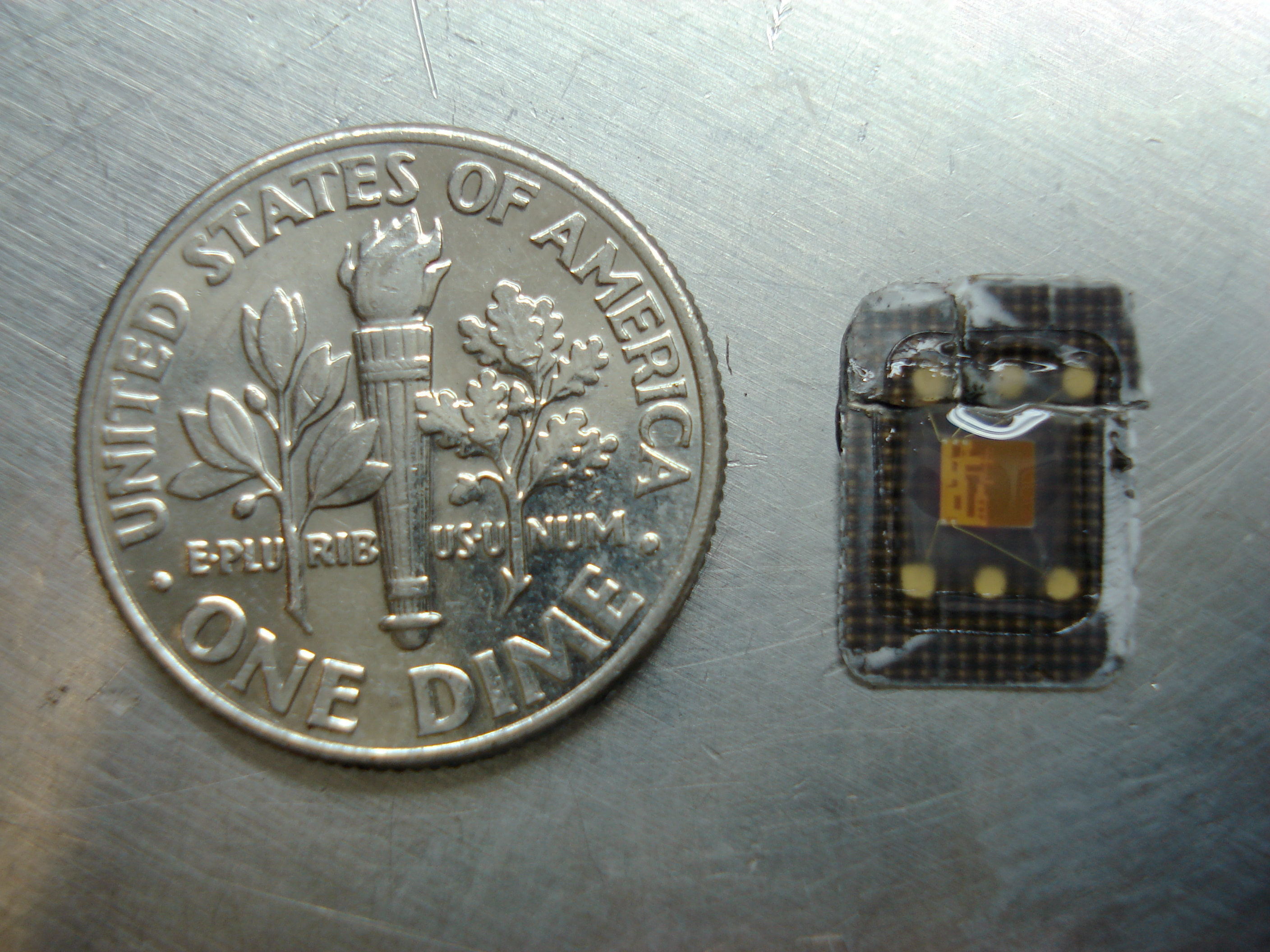 This is the memory film from a micro SIM Card without the plastic backing plate, and U.S. dime use to indicate scale